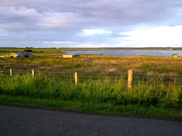 St John's Loch near Dunnet Head. St John's is a shallow loch, one of the best known in Caithness. Most of its fishing is by boat, for trout. It has the distinction of supporting the most northerly hatch of Mayfly in the British Isles. This picture was taken at 9:45 p.m. on July 1, 2004 and people were still fishing there.